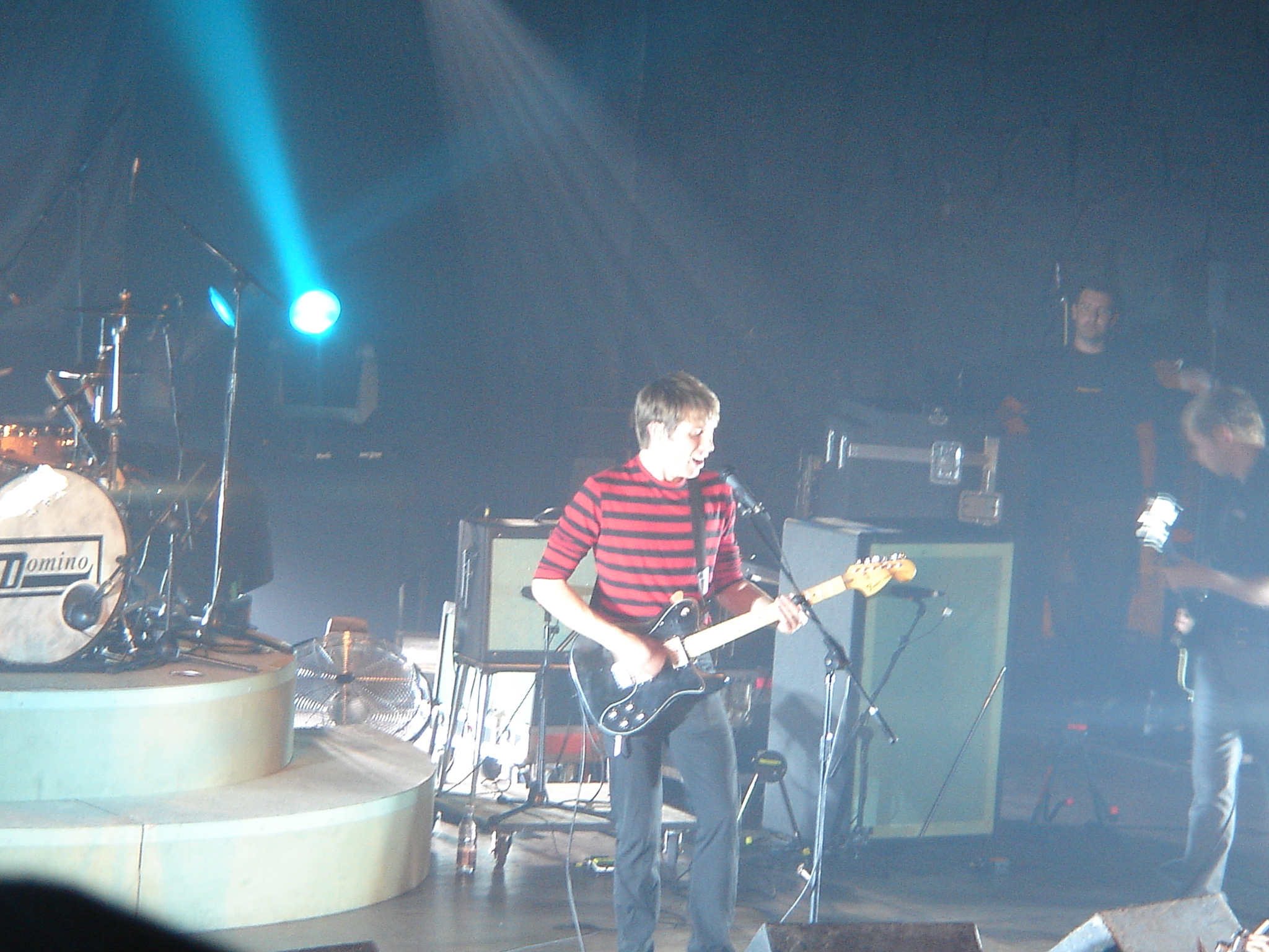 Franz Ferdinand Live in Madrid I took this photo of the concert of Franz Ferdinand in Madrid in August.